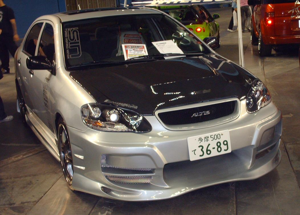 Tuned 2000-2008 Toyota Corolla Altis (JDM) photographed at the Montreal National Sport Compact Auto Show 2007.